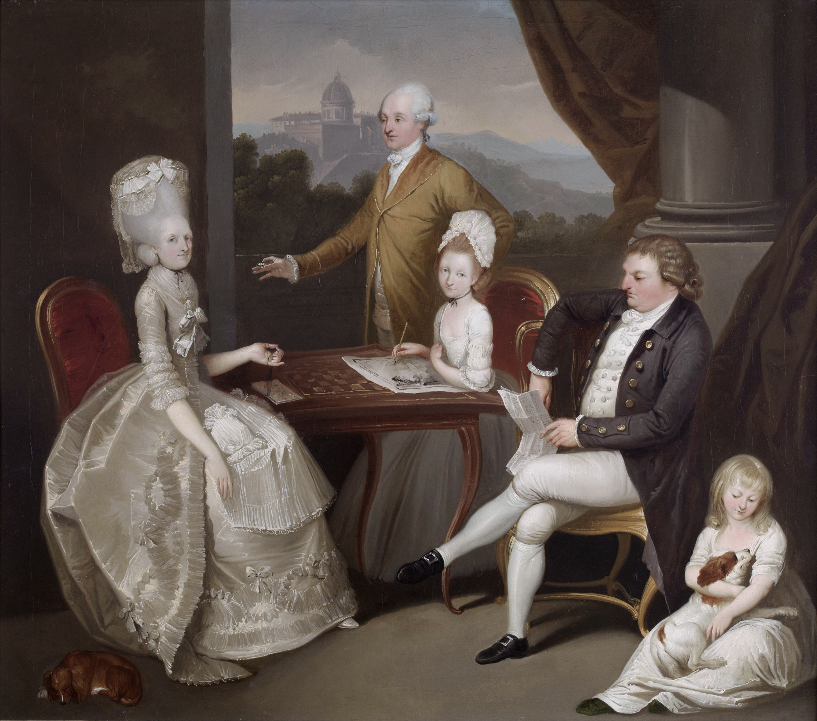 Aubrey Beauclerk, later 5th Duke of St. Albans, and his family including his eldest son Aubrey (1765-1815), later 6th Duke of St. Albans, who joined his parents in Rome in May 1778, and their two eldest daughters, Catherine (1768-1803) and Caroline (1775-1838).